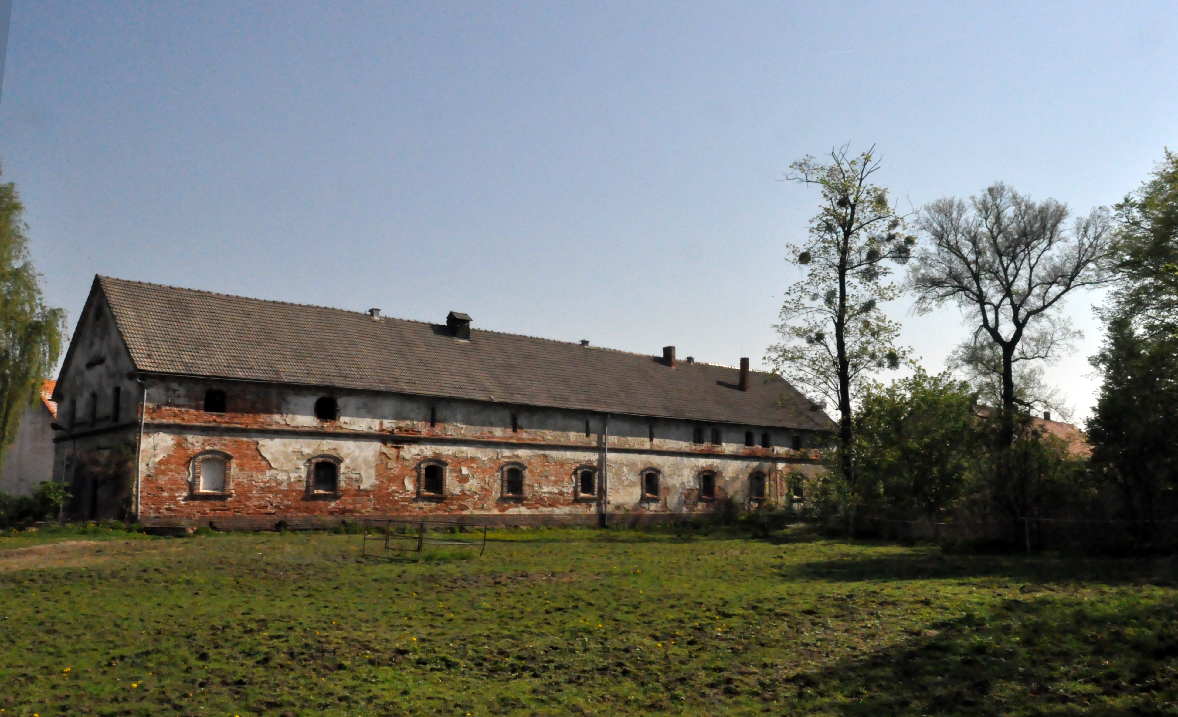 Agricultural building